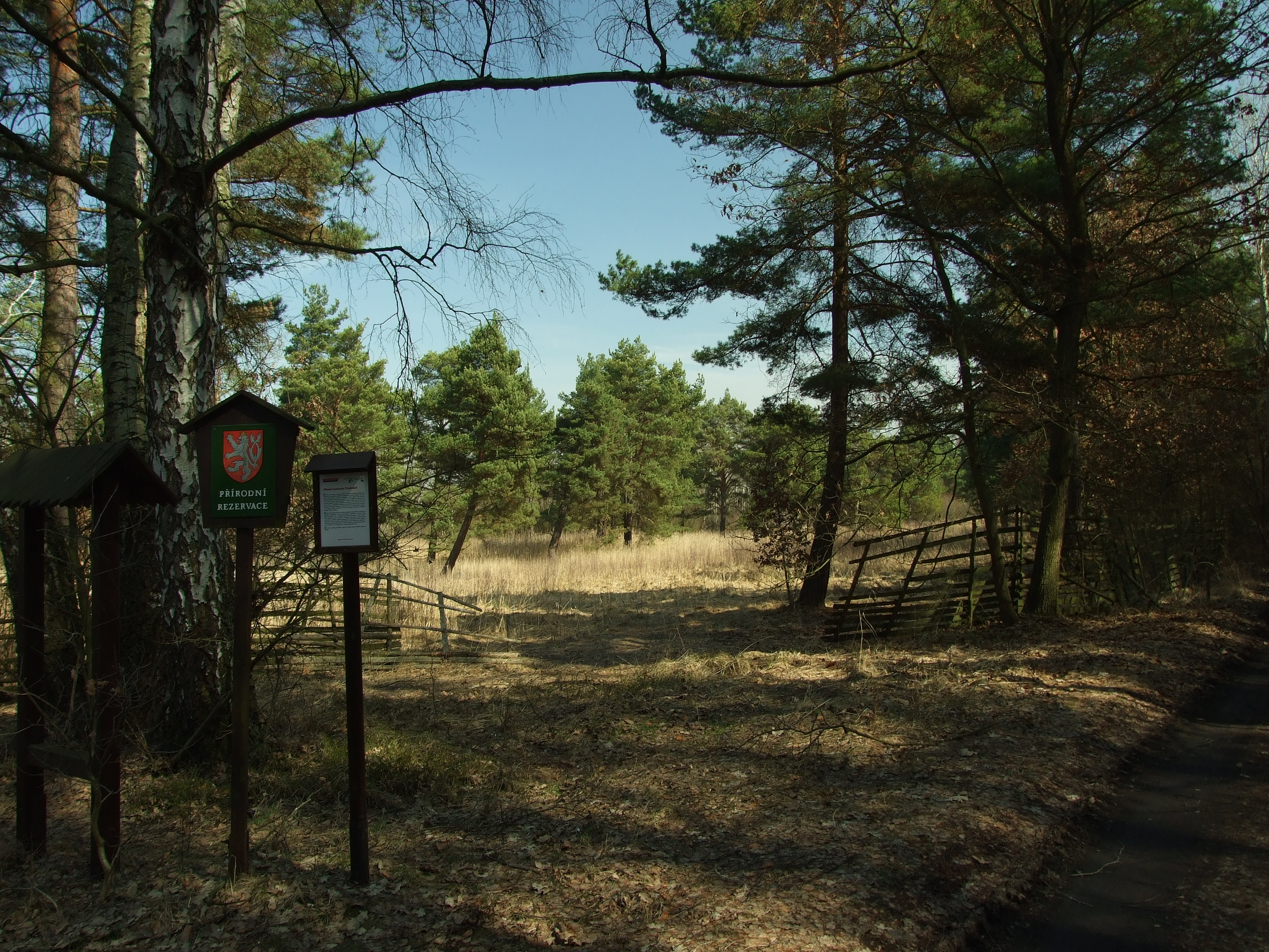 V Bahnách natural reserve near the village of Třtice, Rakovník District. Central Bohemian Region, CZ